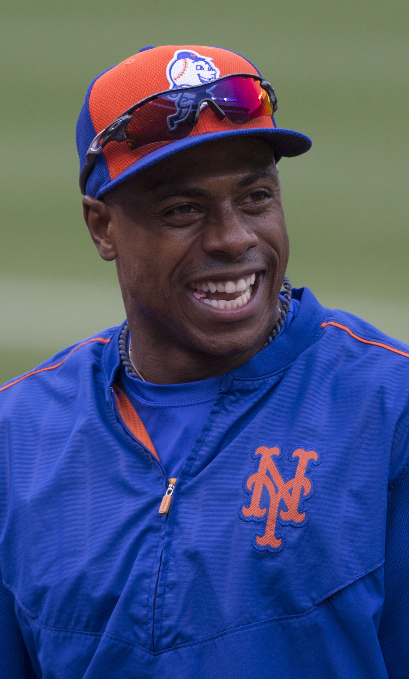 Curtis Granderson